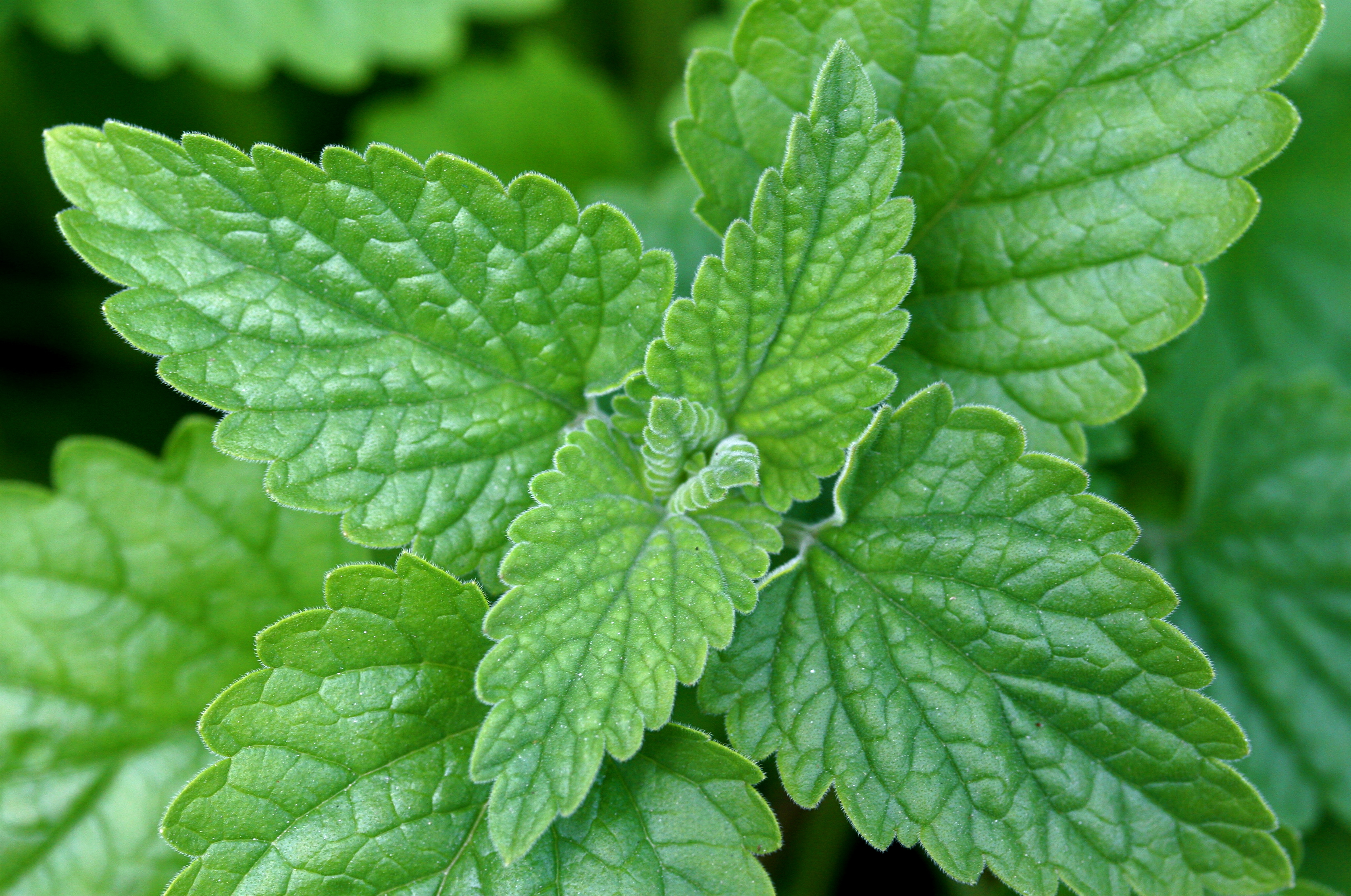 catnip , Nepeta cataria ;leaf